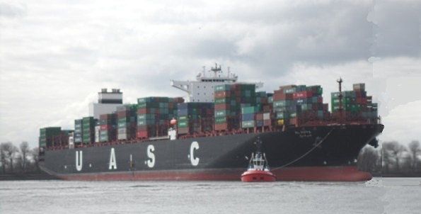 The Container ship Al Riffa of the United Arab shipping Company on the river Elbe in November 2013